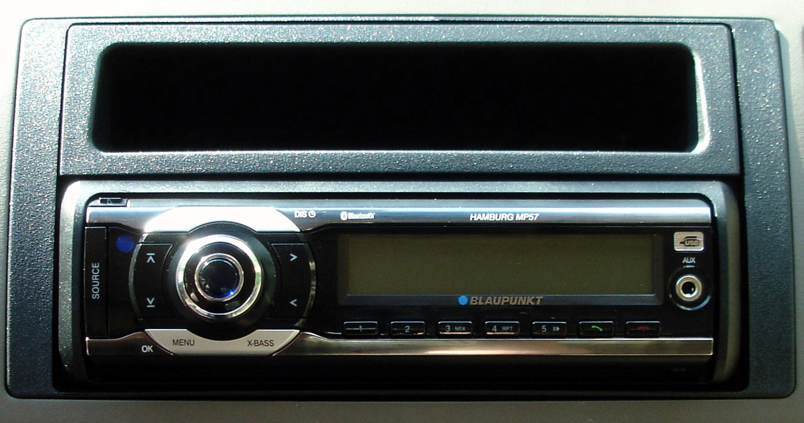 Sixth generation Toyota Camry dashboard with single DIN aftermarket head unit by Blaupunkt and spacer pocket installed.